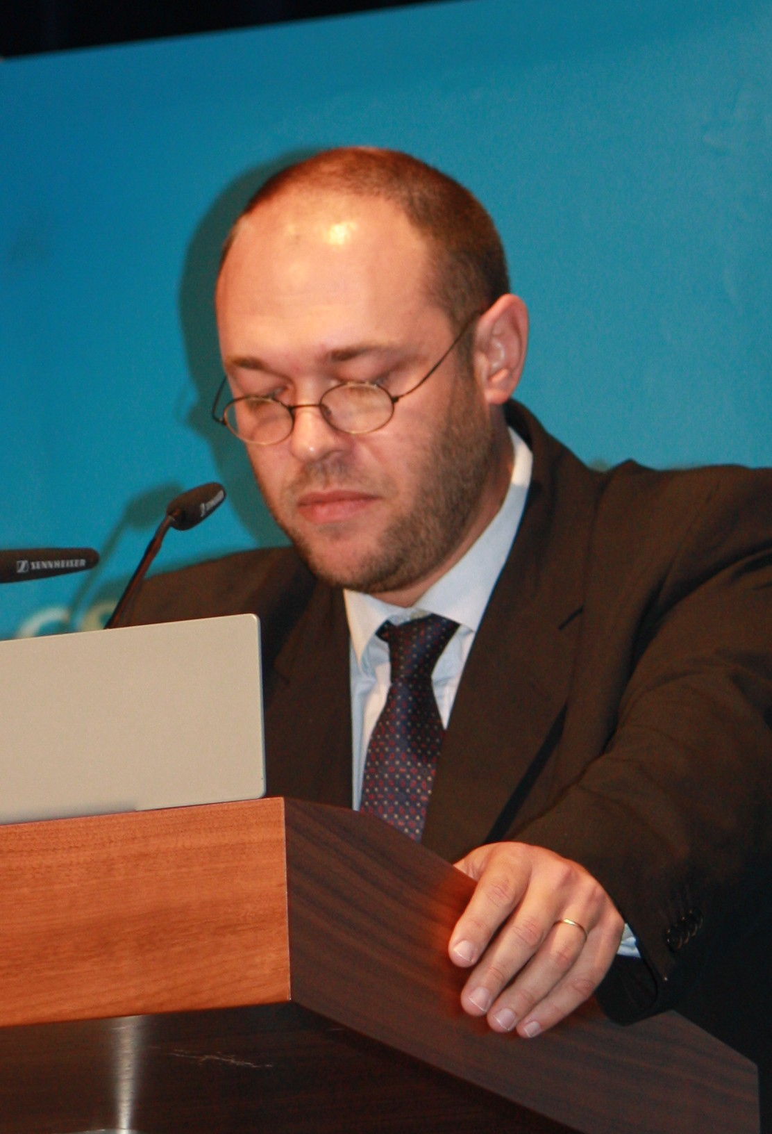 Davor Stier, specieal representative of Croatian government for European and transatlantic relations